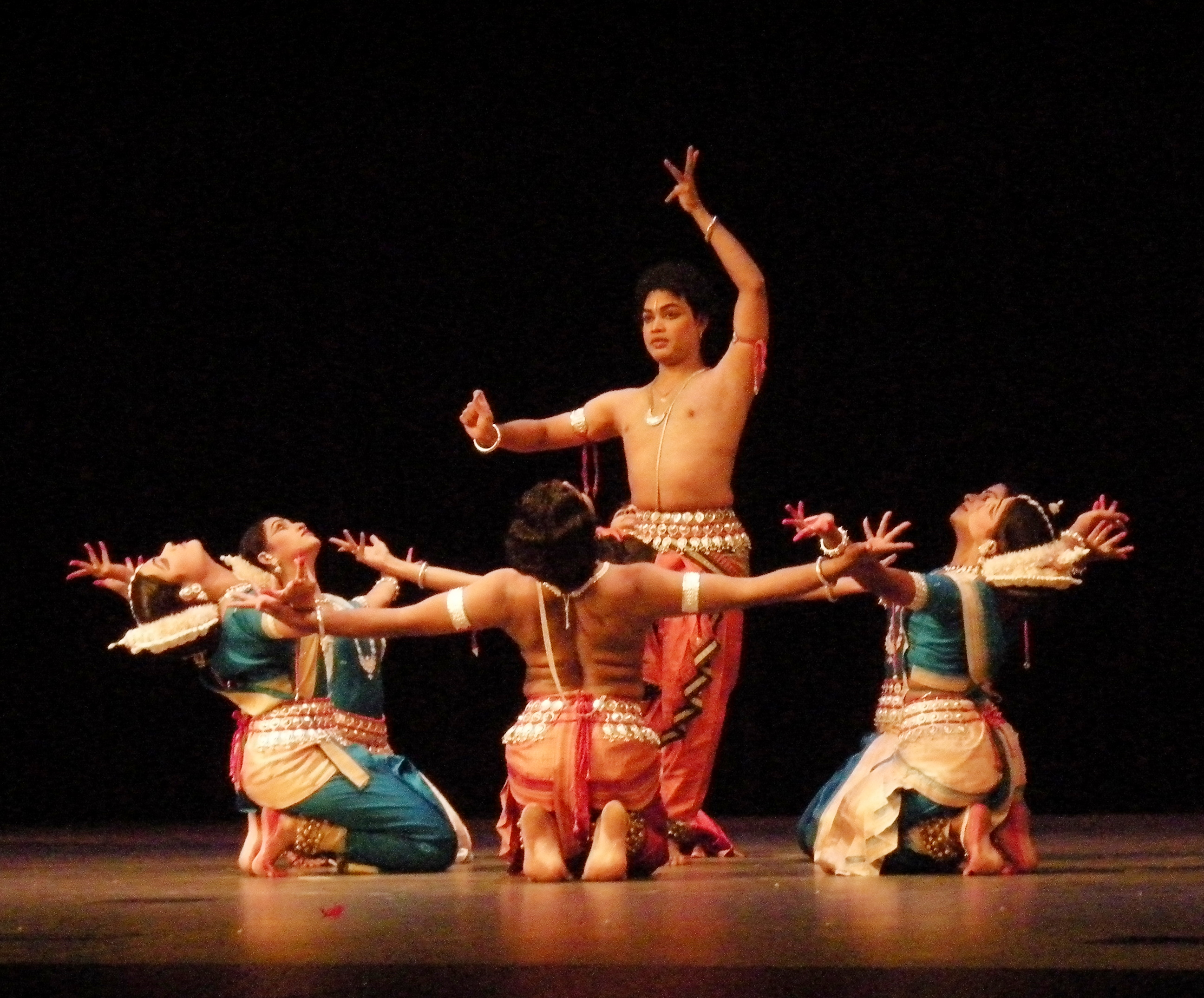 Performance by Odissi dance troupe Rudrakshya (with live musical accompaniment) at Interlake High School, Bellevue, Washington; performance in the Ragamala series (Greater Seattle). Information about the individual performers can be found on the Ragamala site.